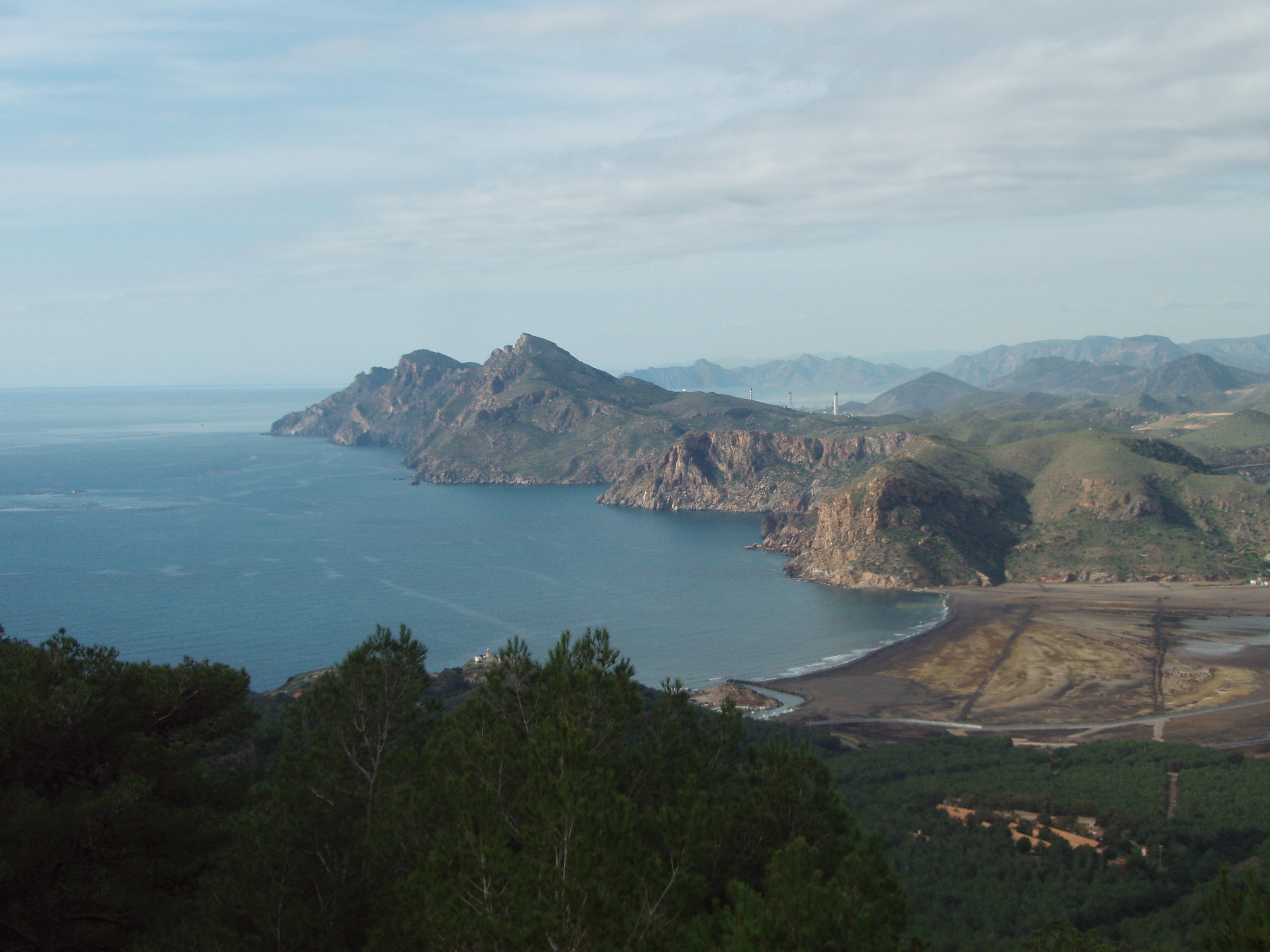 View of the portman Bay, Cartagena, Murcia. Taken while ascending to the batería de cenizas